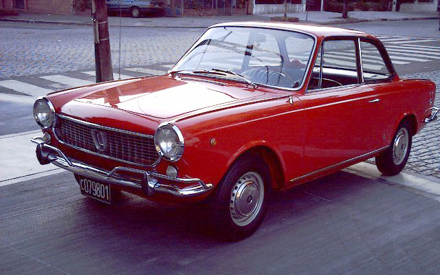 Fiat model 1500 Coupe Vignale, the car was offered with notchback coupe body shapes between the years 1966 and 1970. Cars were equipped with engines of 1481 cc (90.3 cui) displacement, delivering 59 kW (80 PS, 79 hp) of power. The construction of this model is based on FIAT 1300/1500 Typ 116/115.